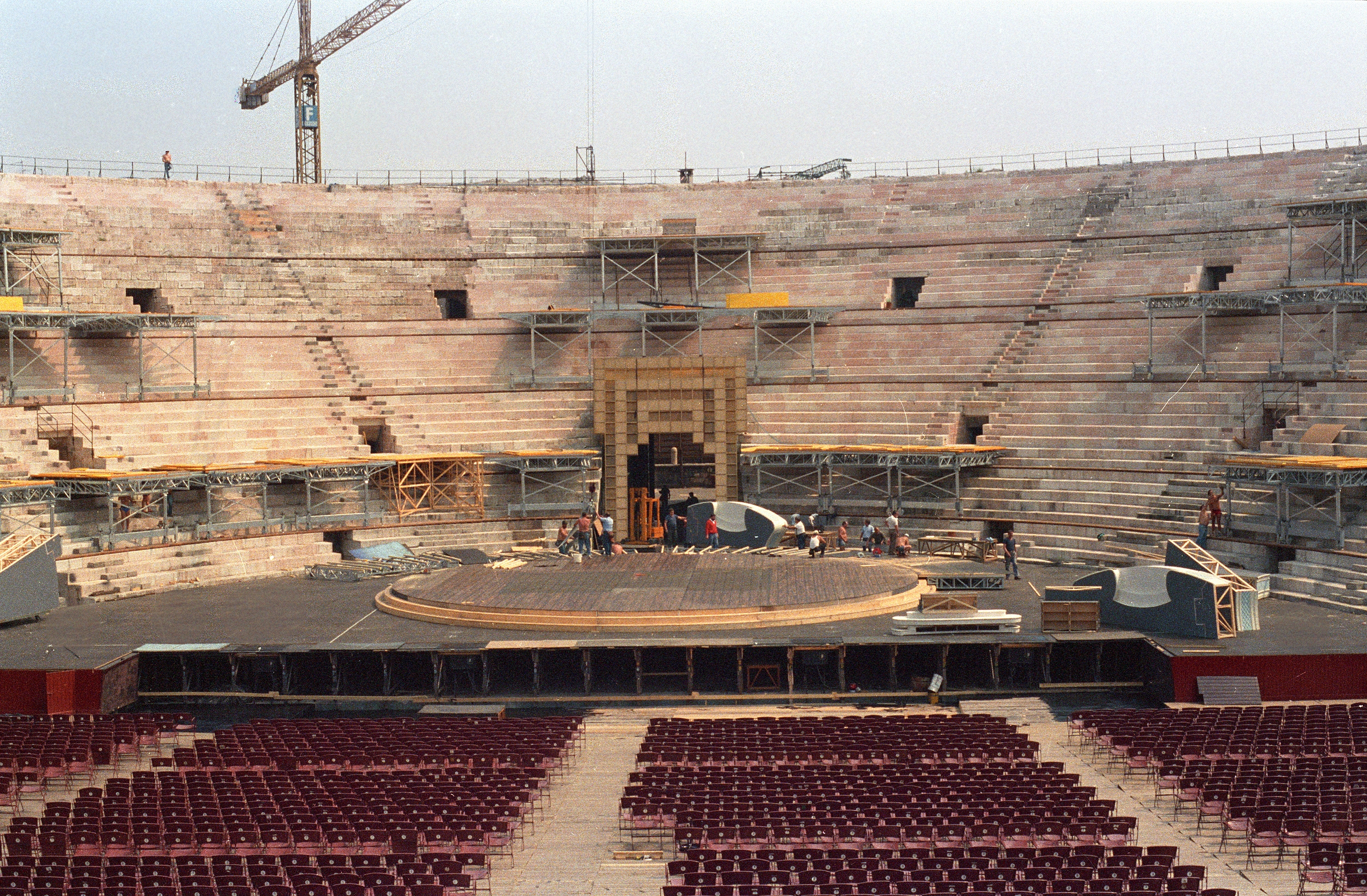 The AIDA opera in the arena in verona